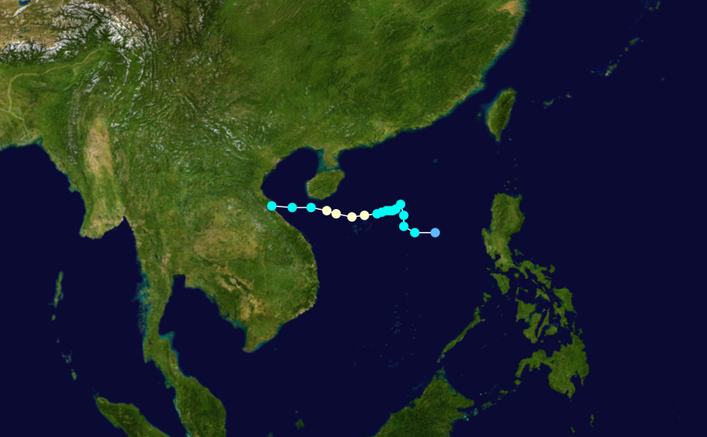 Typhoon Lex 1983 track. Uses the color scheme from the Saffir-Simpson Hurricane Scale.